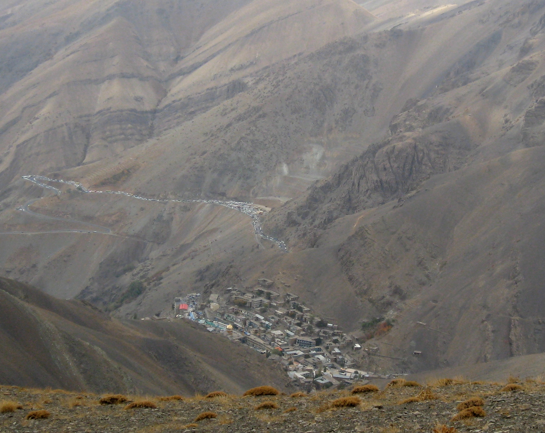 Emamzadeh Davood Village as seen from Palangchal Mountains.